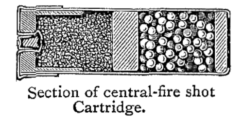 Illustration from 1908 Chambers's Twentieth Century Dictionary. Cartridge, n. a case made of paper, pasteboard, metal, &c., containing the charge for a gun.